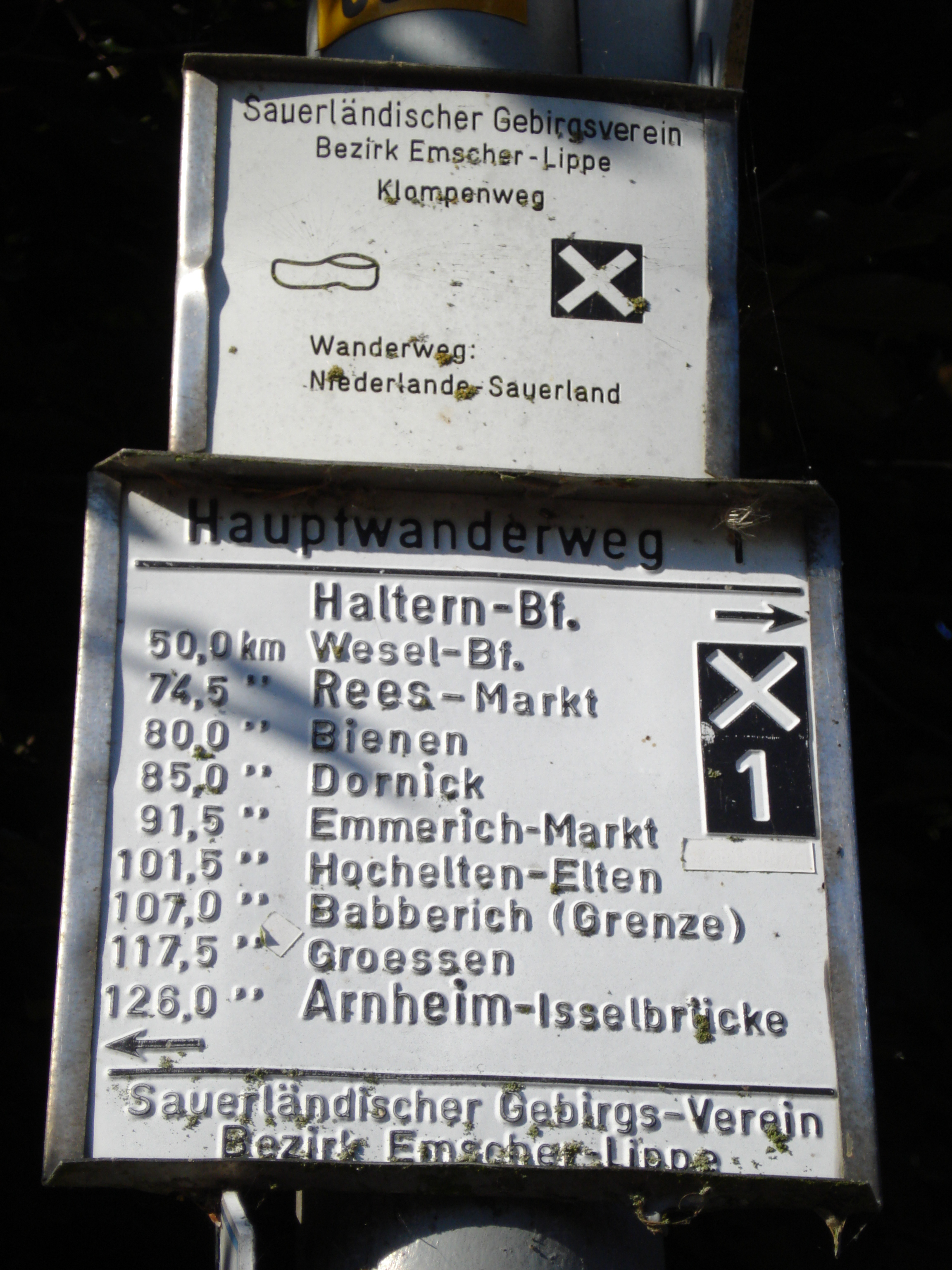 Oud-Zevenaar (Gld,NL) klompenweg Sauerland-Arnheim, part of the long-distance hiking path from Sauerland (Germany) to Arnhem (Netherlands)